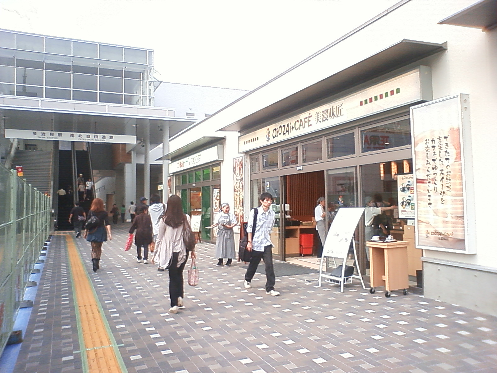 Asty Tajimi